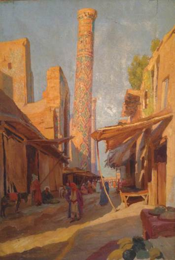 Samarkand